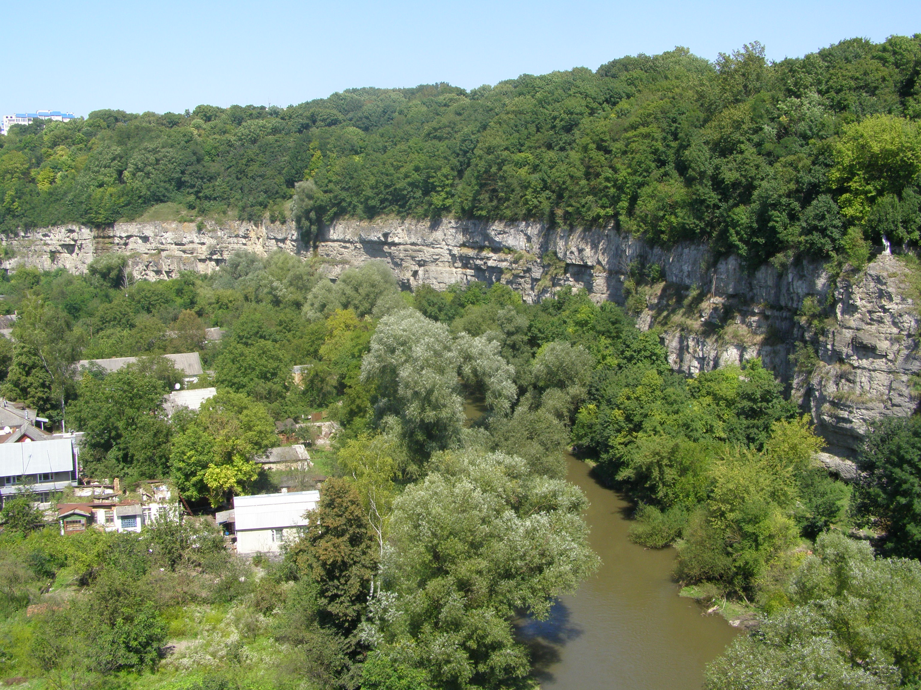 Kamianets-Podilskyi, canyon around the Old Town